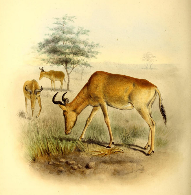 Illustration of Coke's hartebeest